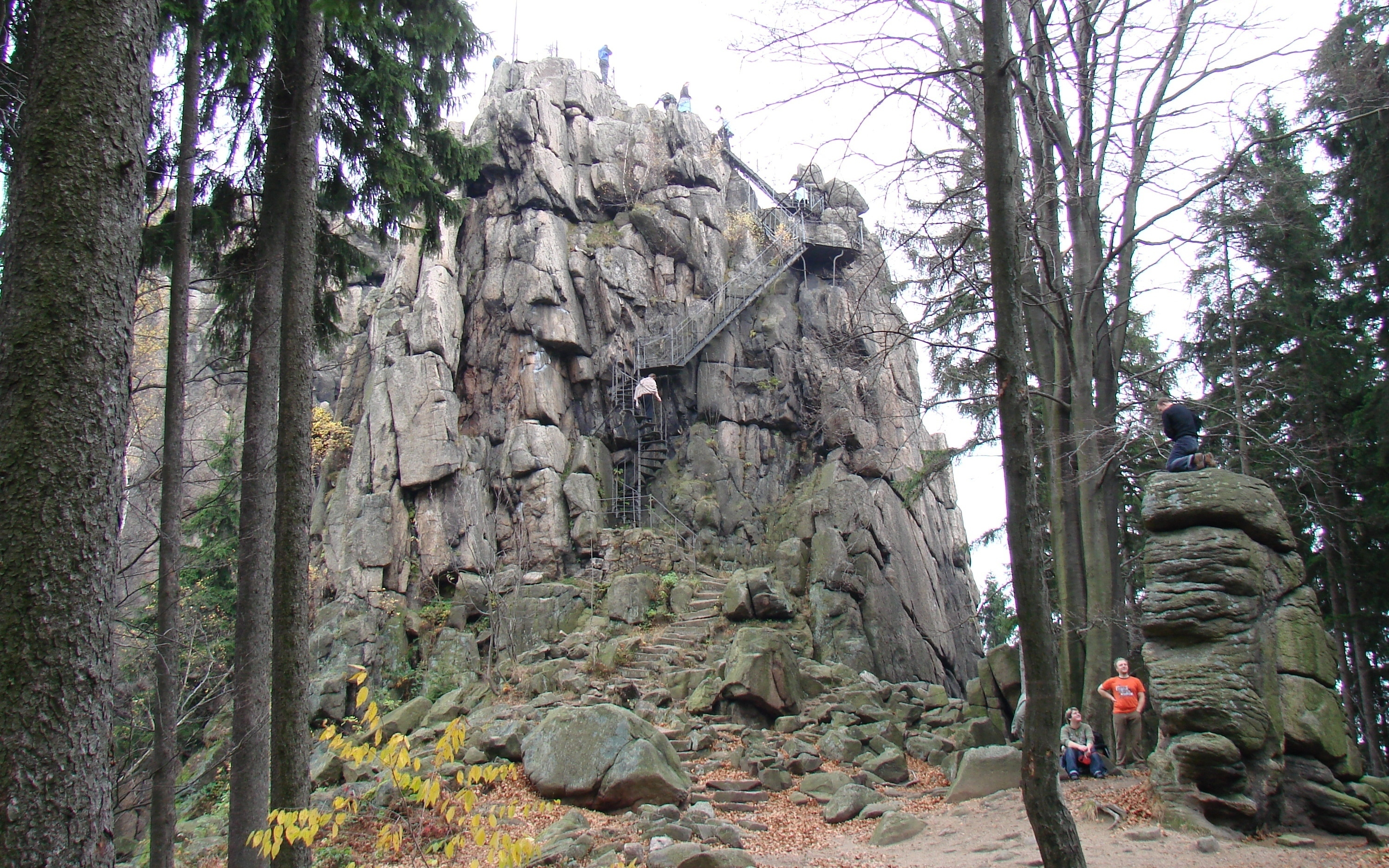 Sokolik in Rudawy Janowickie, Lower Silesia, Poland.